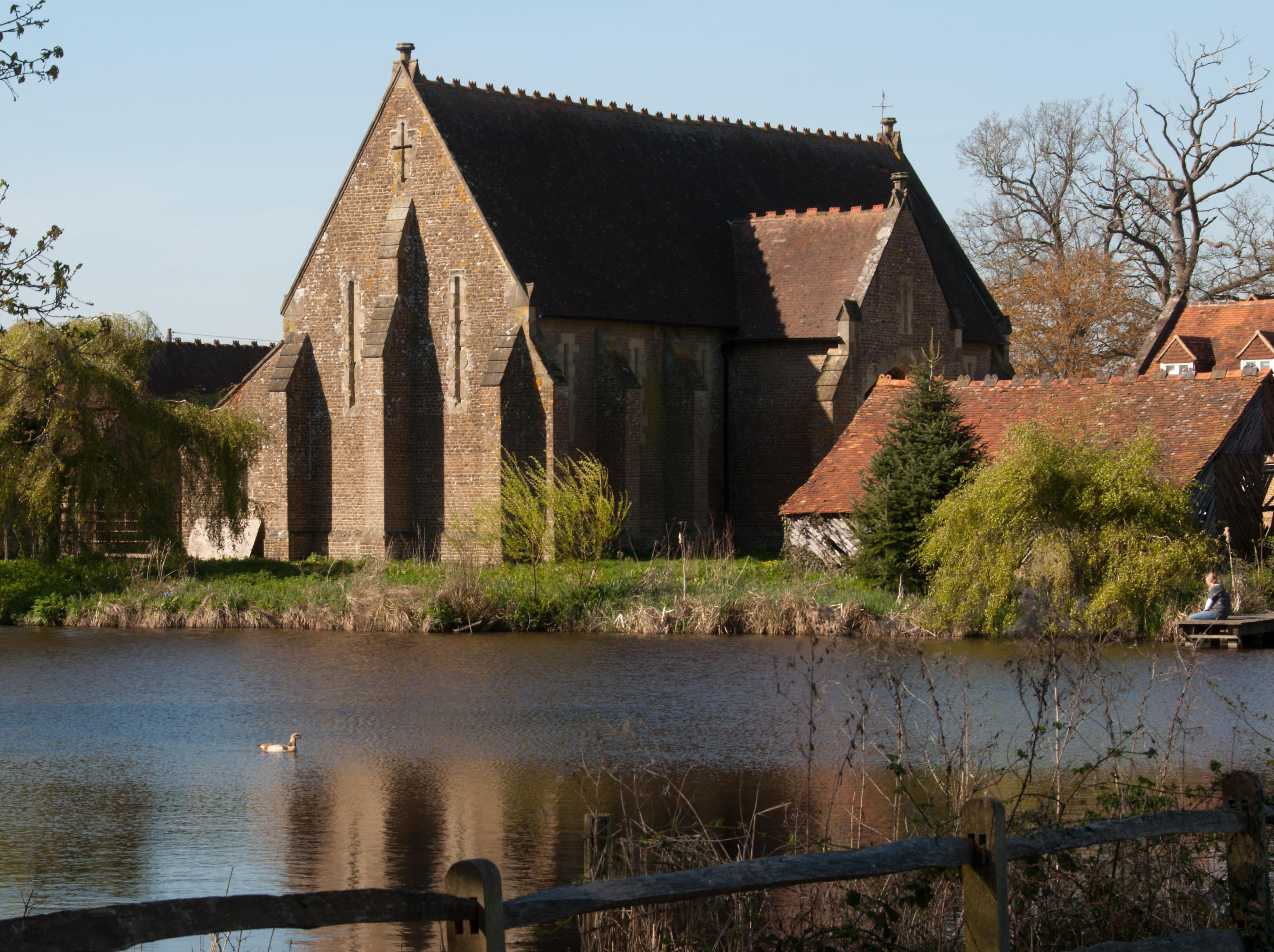 The Barn, Oxenford Grange seen from the B3001 road. 2014